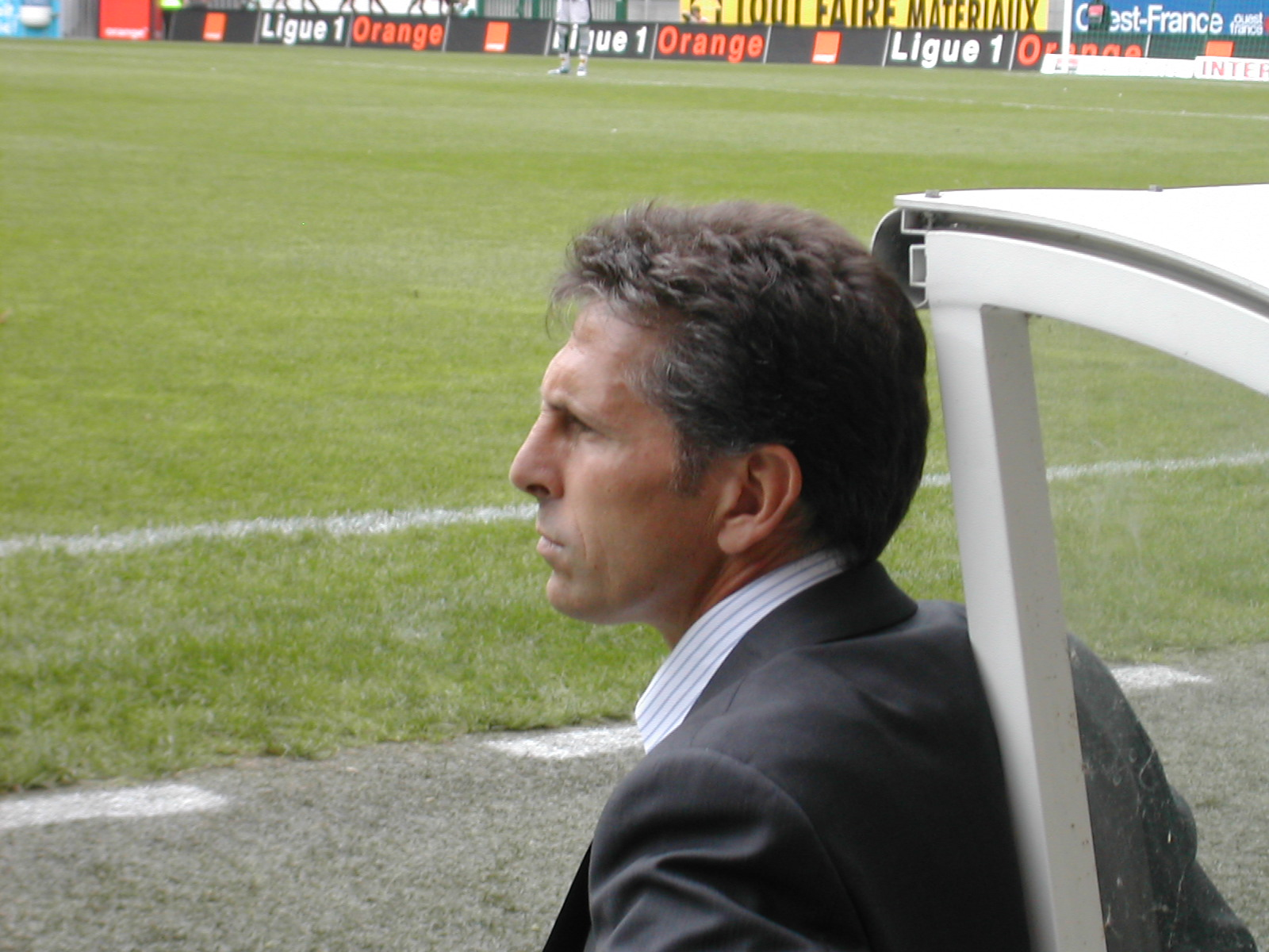 Claude Puel, formerly player and manager of the AS Monaco FC, manager of the LOSC Lille Métropole